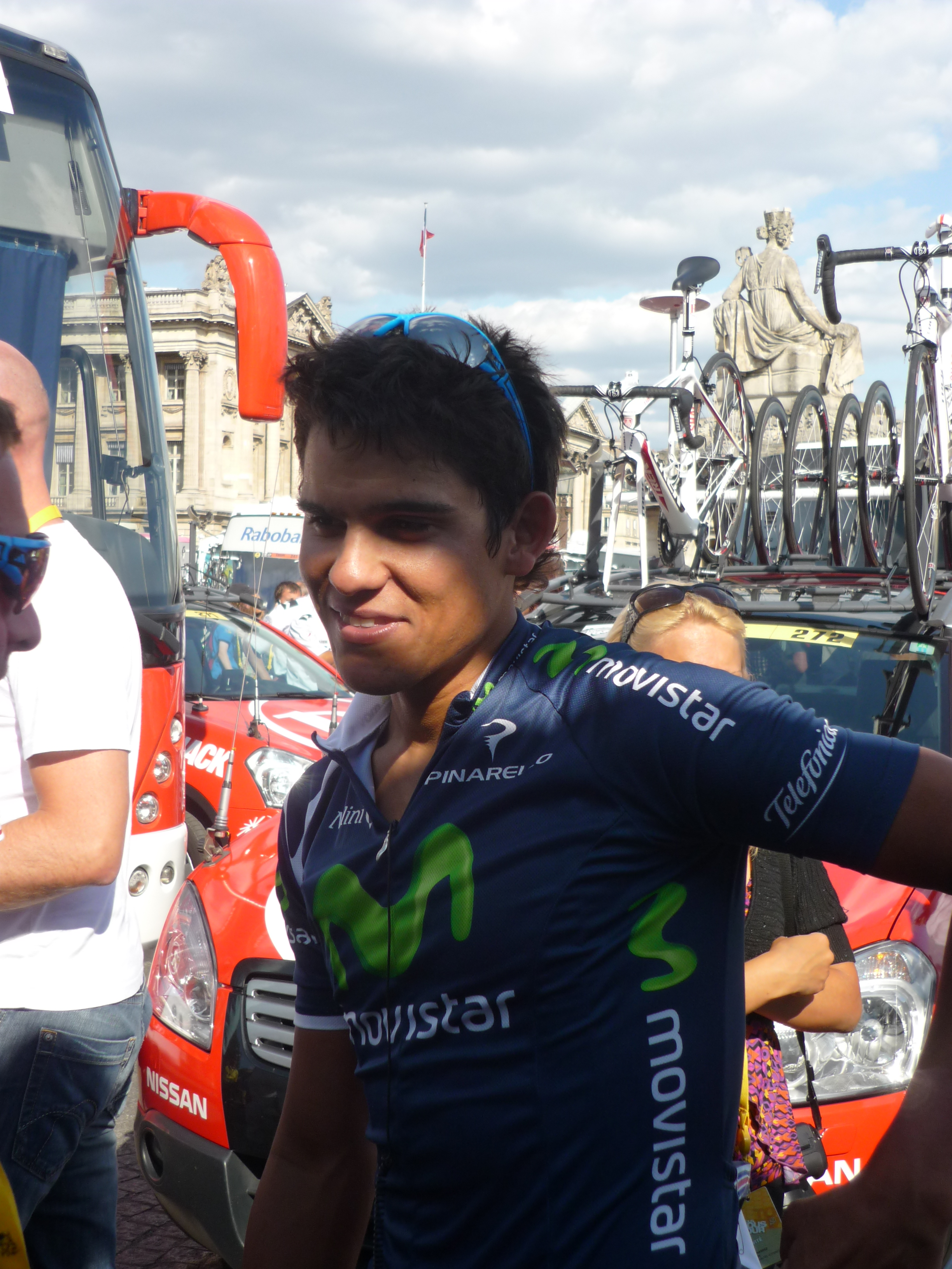 Andrey Amador during 21th stage of Tour de France 2011 Créteil-Paris